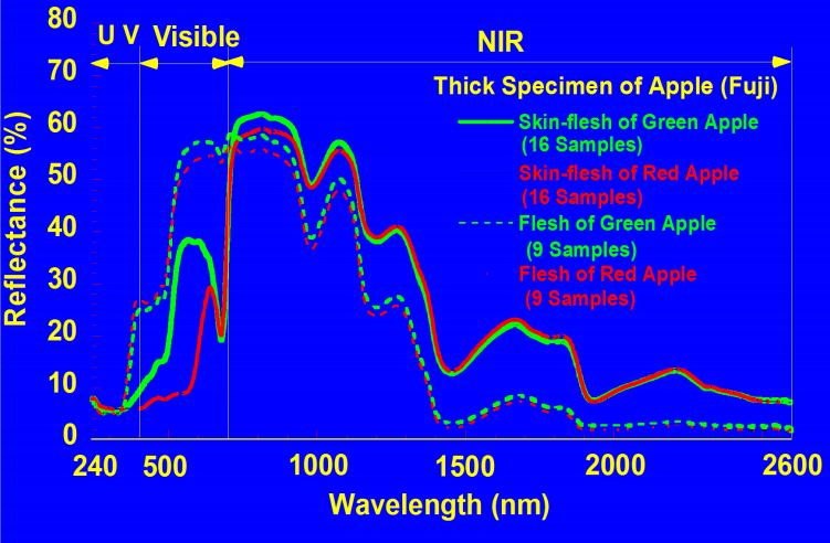 Reflectance measurement based on light spectrum